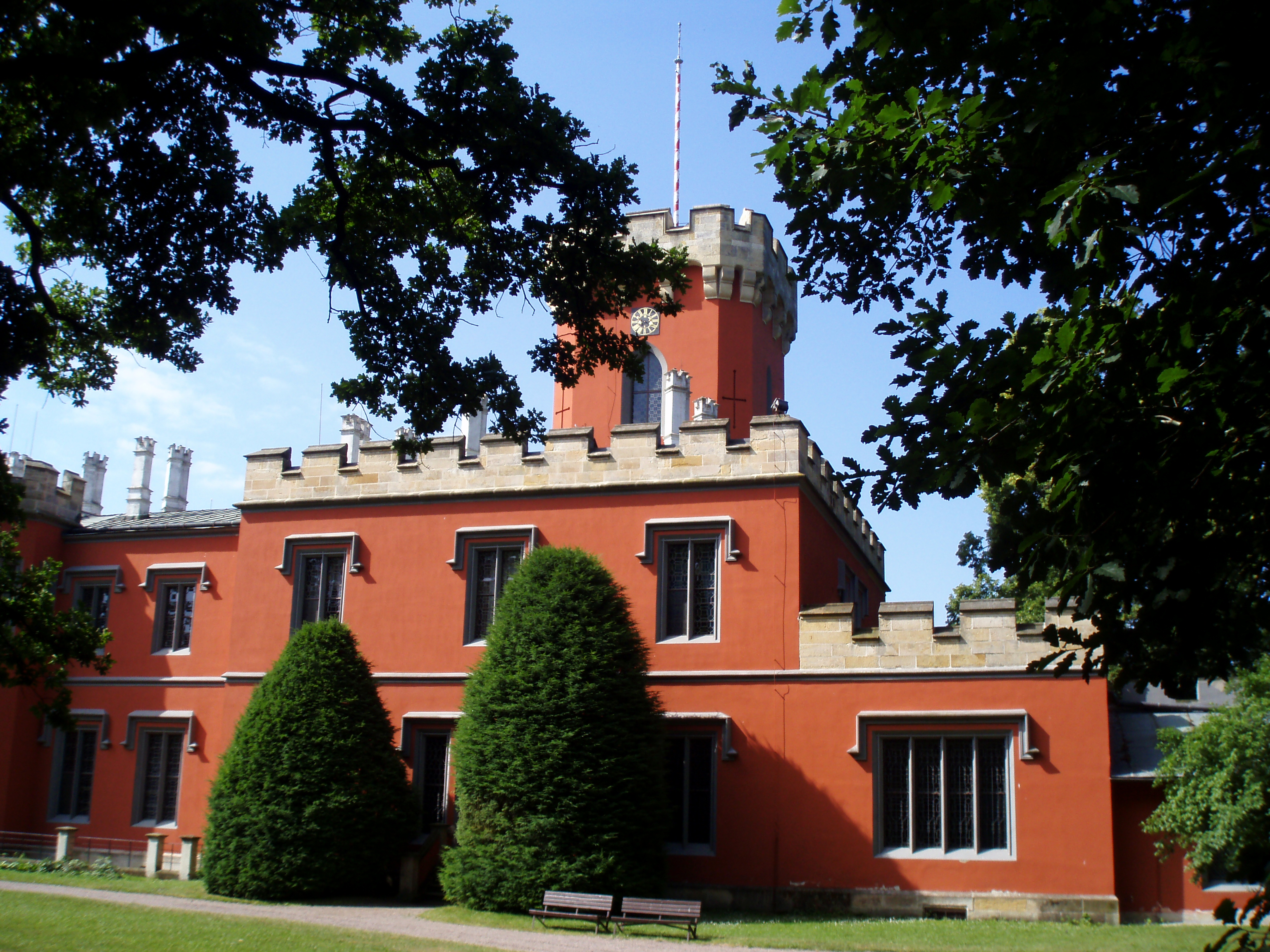 Castle Hradek u Nechanic (CZ)